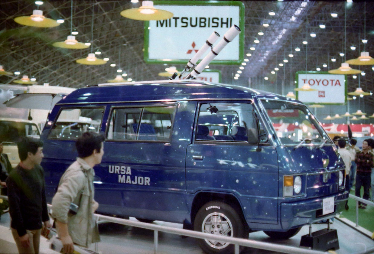 第23回東京モーターショーで公開された天体観測自動車。